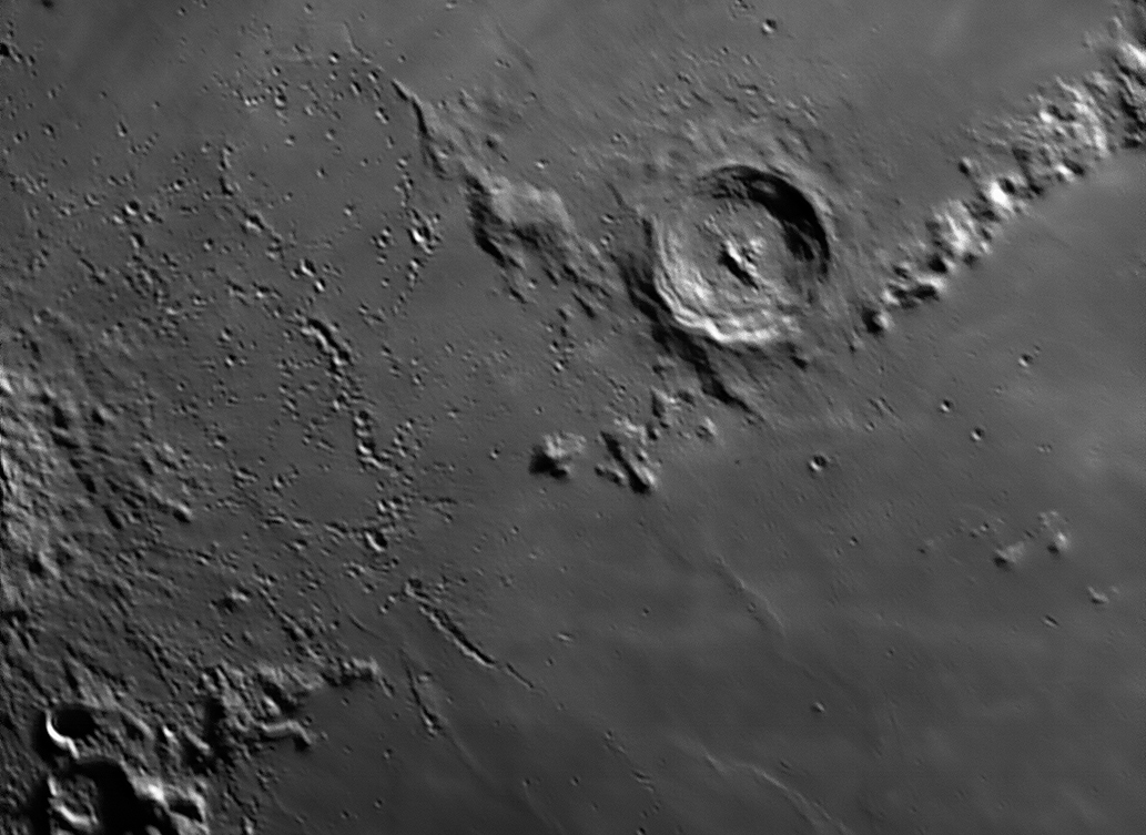 Eratosthenes crater on the Moon, taken from Bulgaria from amateur astrophotographer Georgi Georgiev.